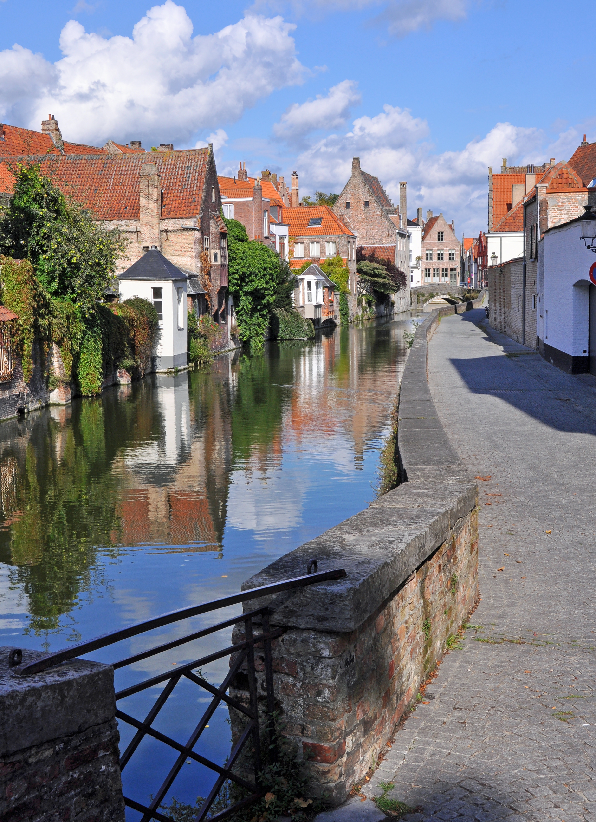 Bruges (Belgium): Goudenhandrei (canal and street)